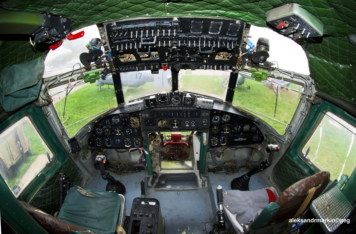 Cockpit. Helicopter Mi-6 PG Firefighter option.